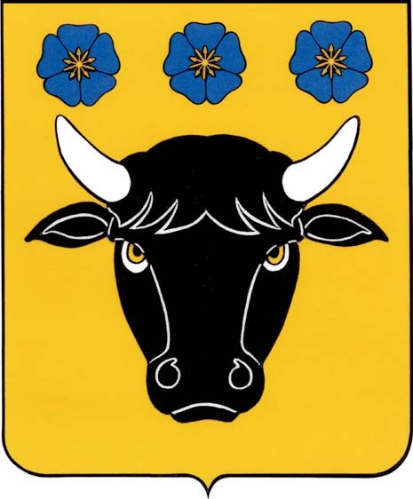 Municipal coat of arms of Voleč village, Pardubice District, Czech Republic.